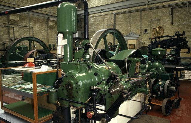 Brook Pumping Station, Chatham The two horizontal single cylinder diesel engines that drove centrifugal pumps. There are other exhibits depicting local industry and i'm sure several people will spot the big eagle on the Columbian printing press in the background - quite a familiar artefact.